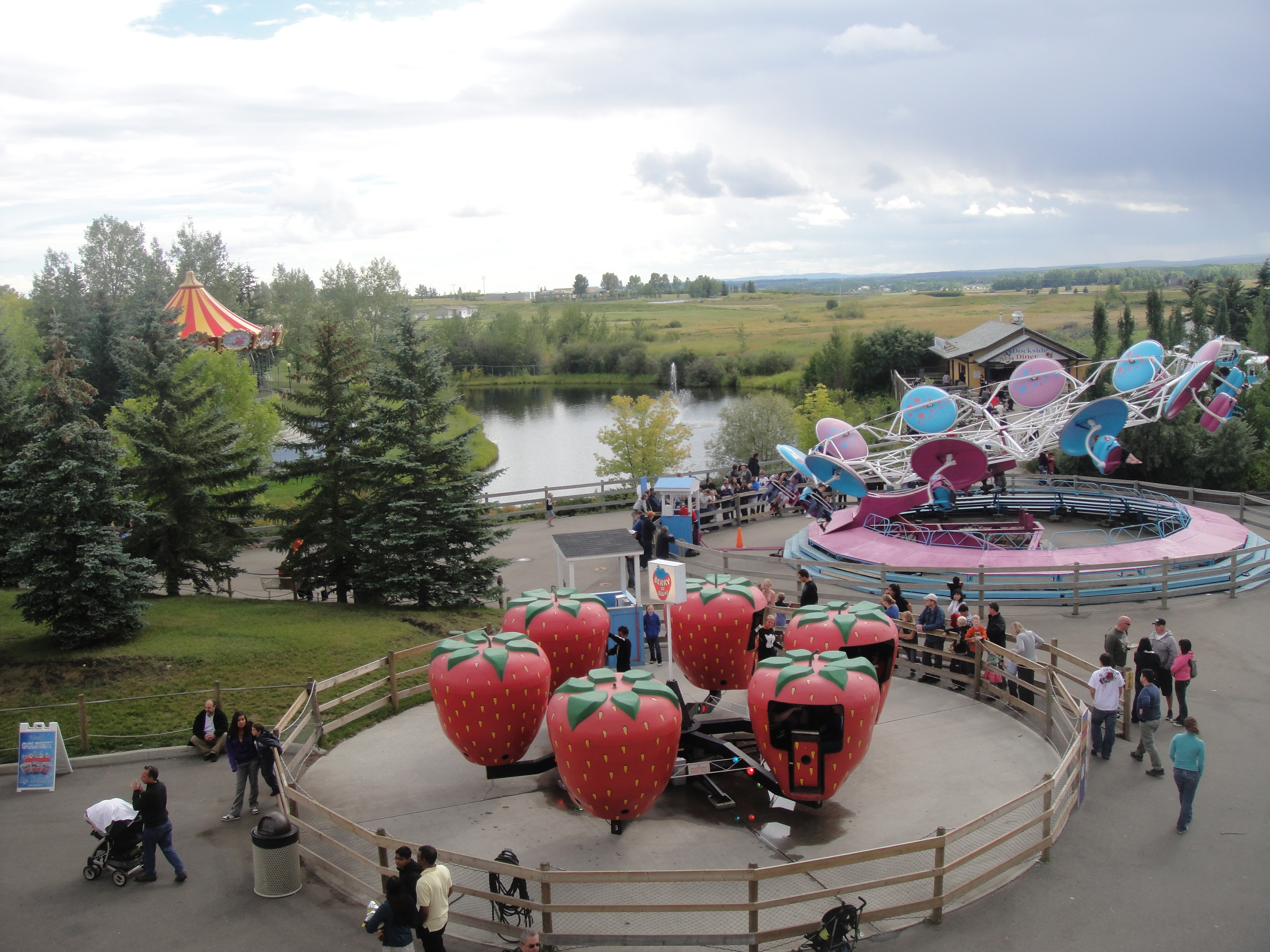 Children rides in Calaway Park near Calgary, Alberta, Canada